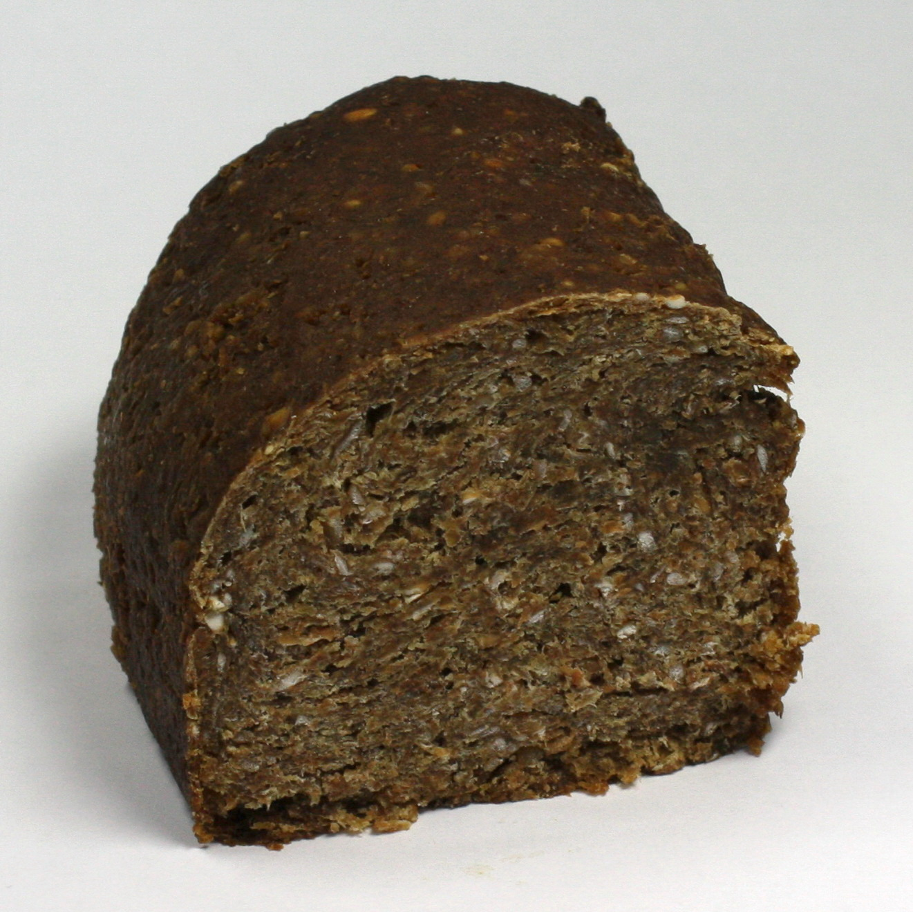 Essen Bread, 100% sproud Spelt, Temperature 100-130°C, cut